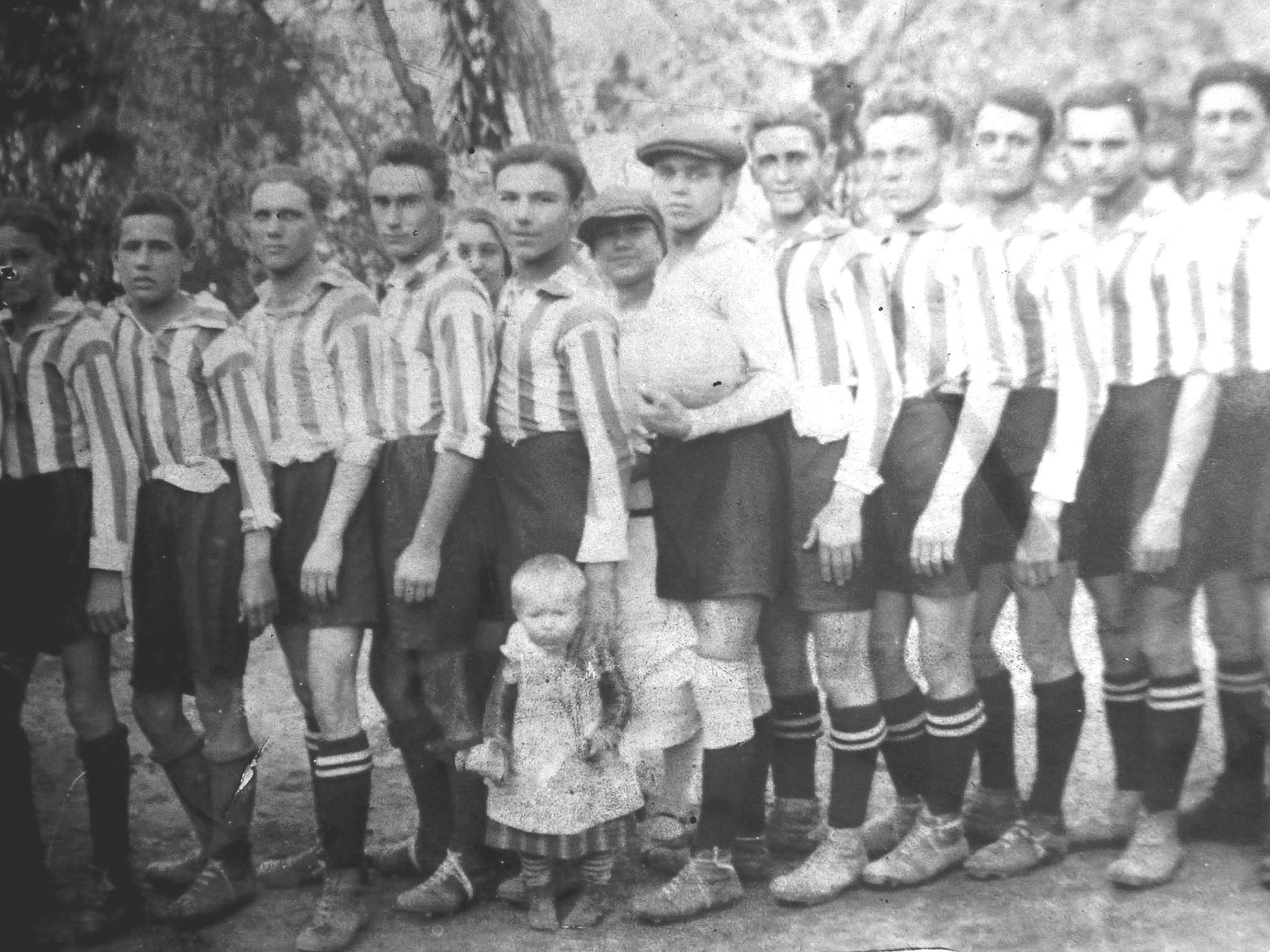 One of the oldest still available picture from the soccer team of AC Dorog from very beginning years of 1920's